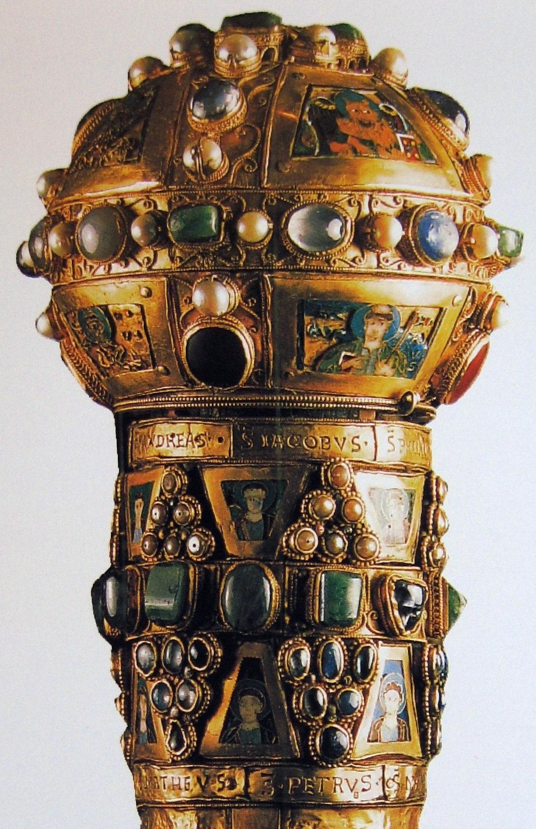 Staff-reliquary of St Peter. Gold. Gems. Enamels. Pearls. Limburg (Lahn) Cathedral Treasury